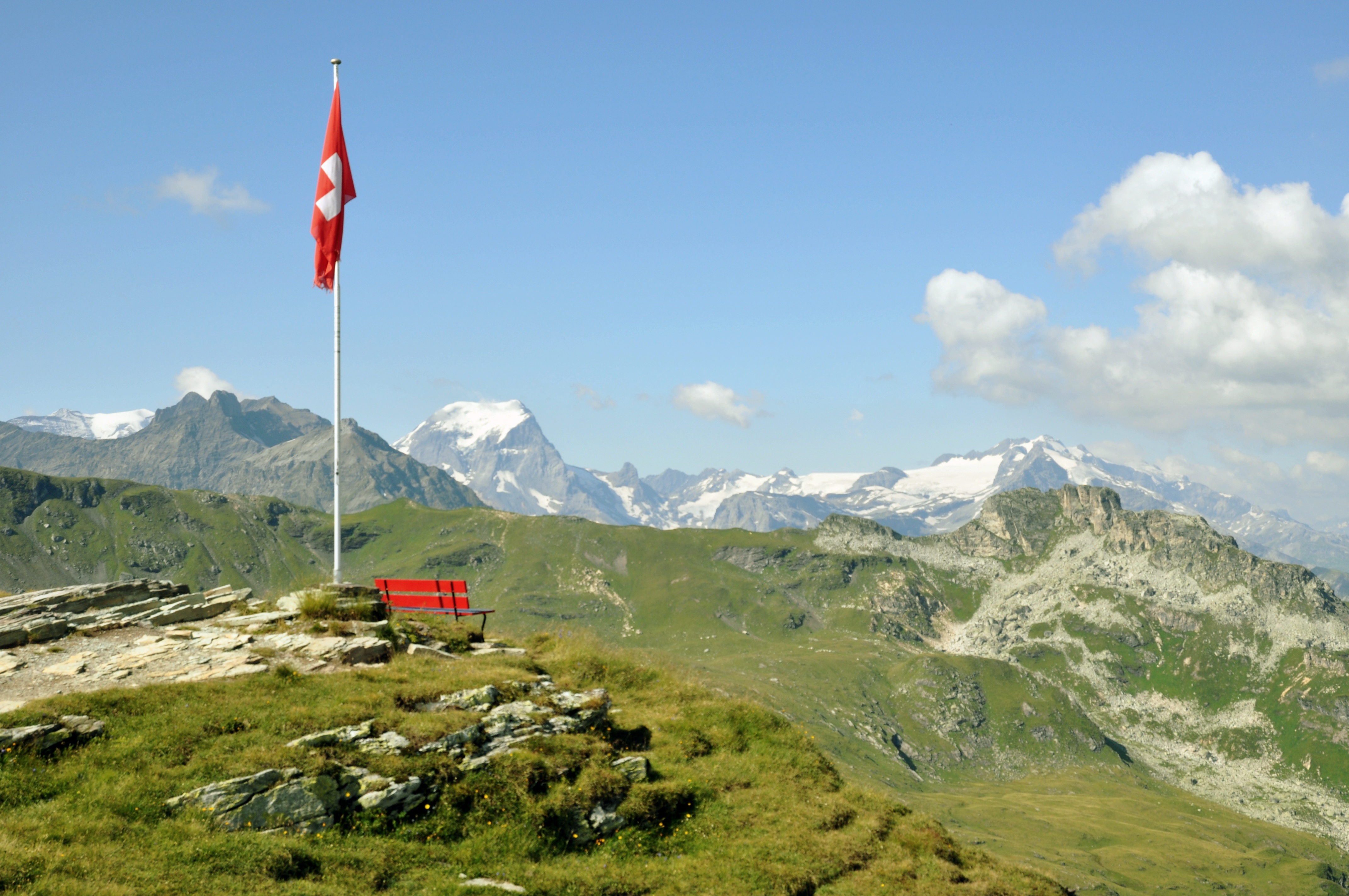 Tödi viewed from the Leglerhütte; oh the right hand-side Clariden with the Glaciers of Claridengletscher and Sandfirn